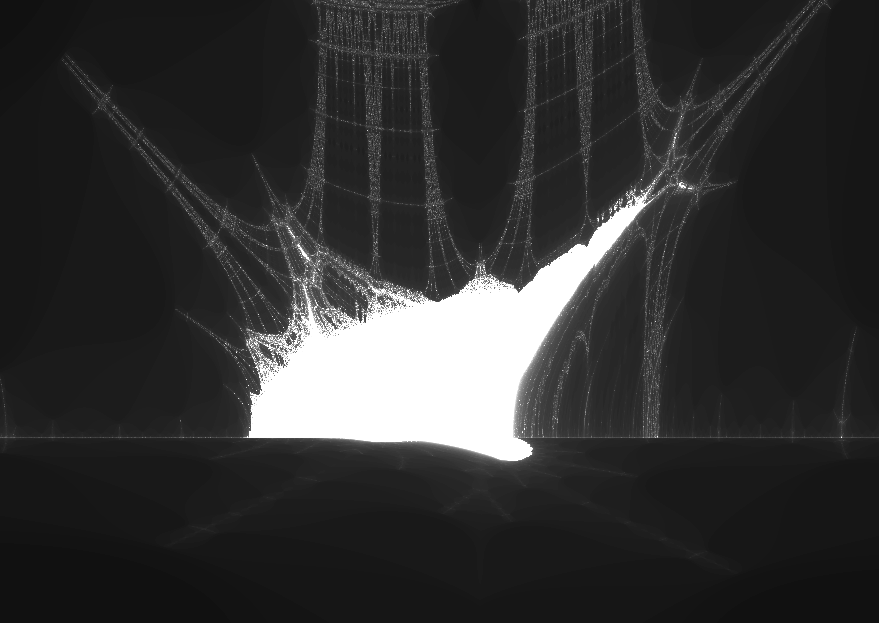 A zoom-in (to the lower left) of the burning ship fractal, showing a "burning ship" and self-similarity to the complete fractal.